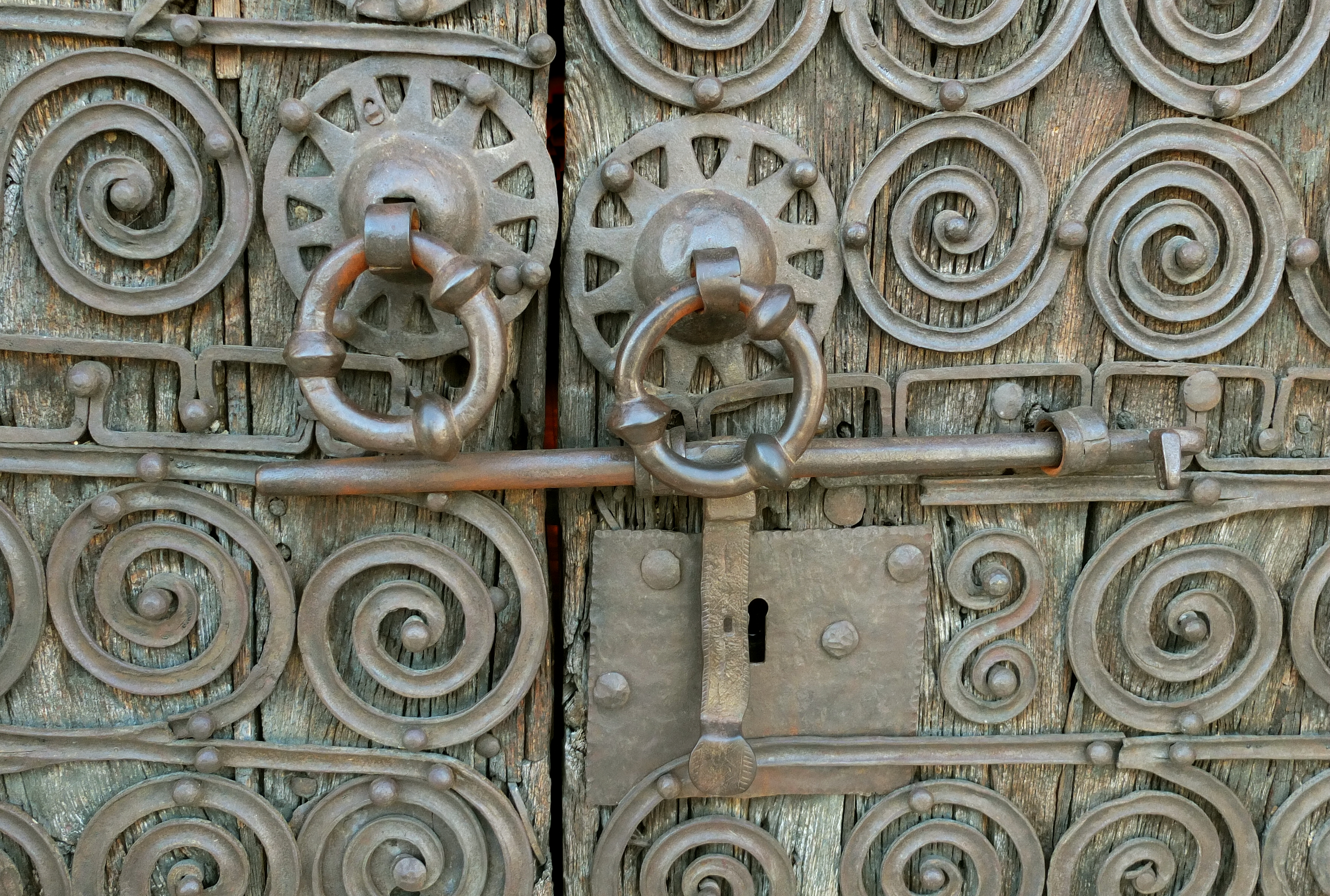 Medieval door lock at "Église Saint-Saturnin de Montesquieu-des-Albères", France. Ministère de la Culture (France): Base Mémoire: APMH00255887